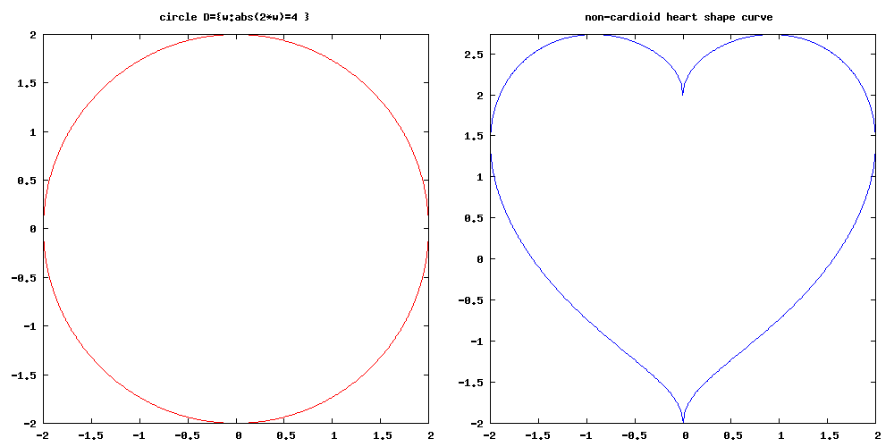 Circle to non-cardioid heart curve mapping.